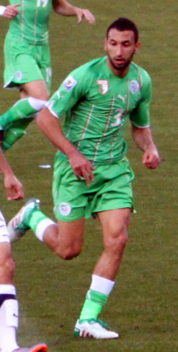 Nadir Belhadj of Algeria against the United States. Photo by Jason Wojciechowski/1GOAL.